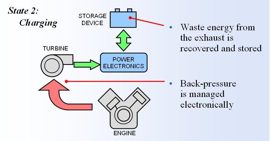 Aeristech Hybrid Turbocharger charge condition